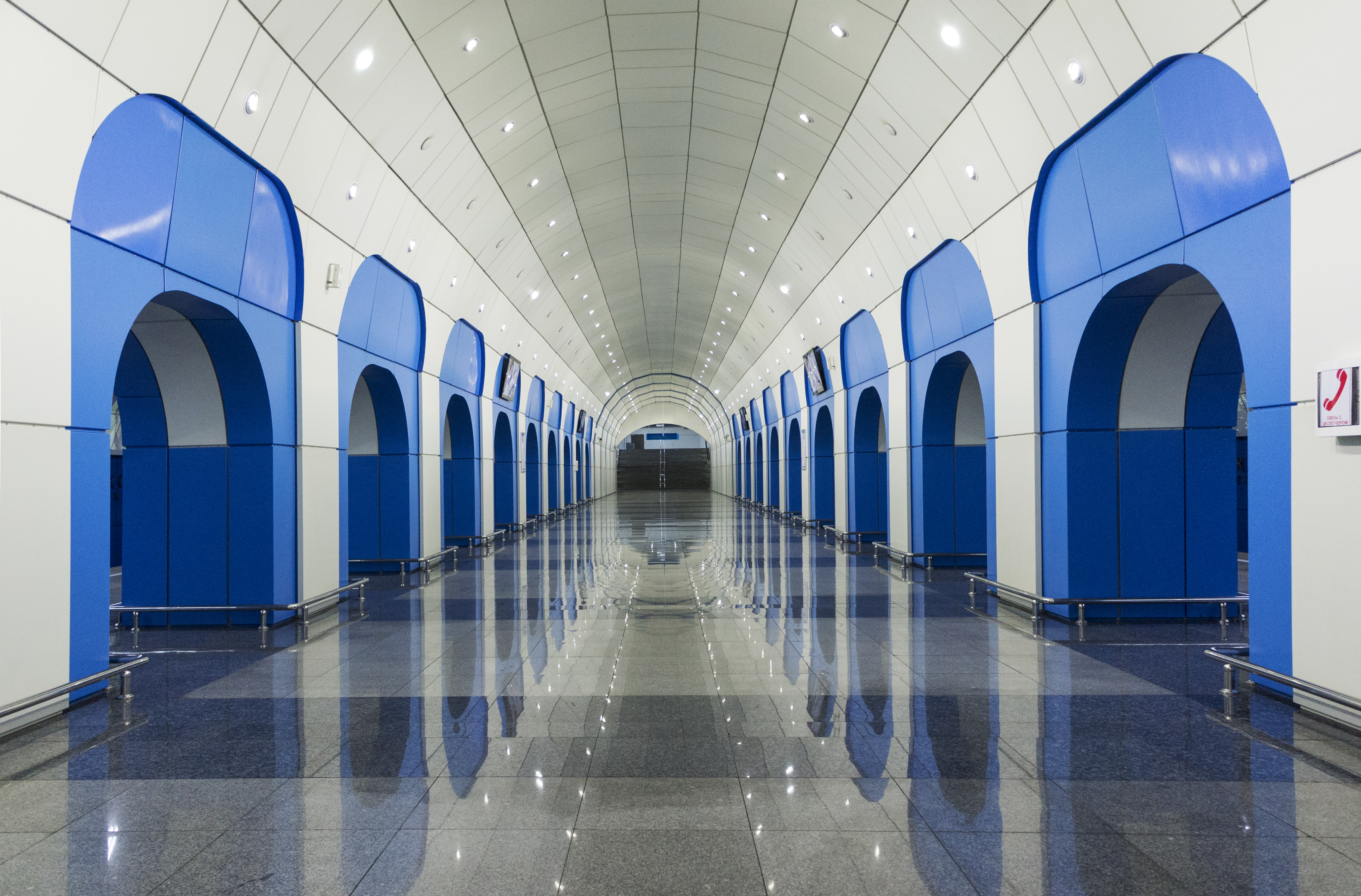 Metro station Baikonur in Almaty, Kazakhstan.